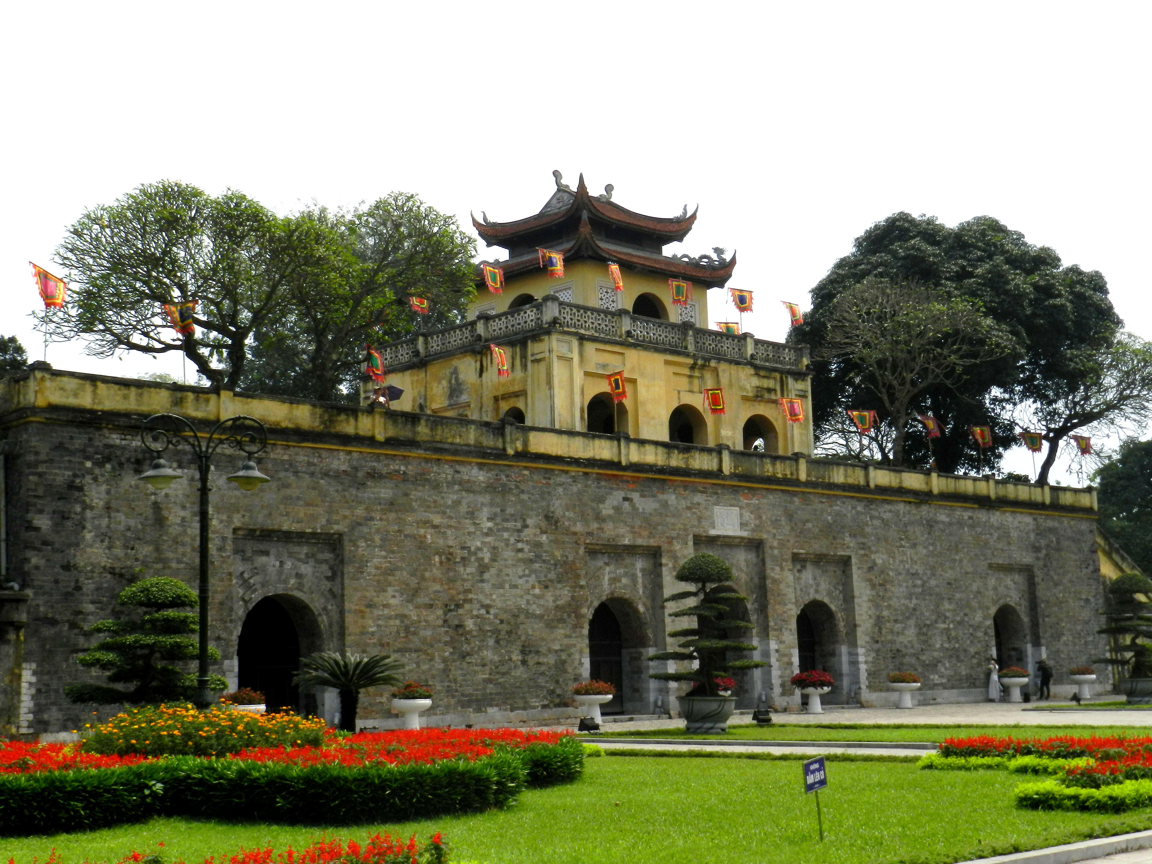 Main entrance, Hanoi Citadel